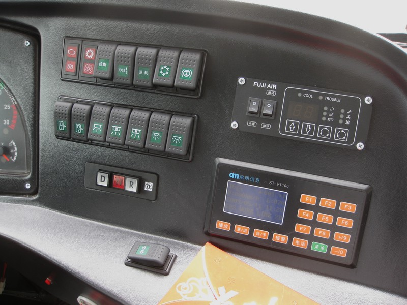 ZF automatic transmission (three buttons in the down left corner) for double-decker at service of Dalian public transport in China, mark Jinling, type JLY6120SCK